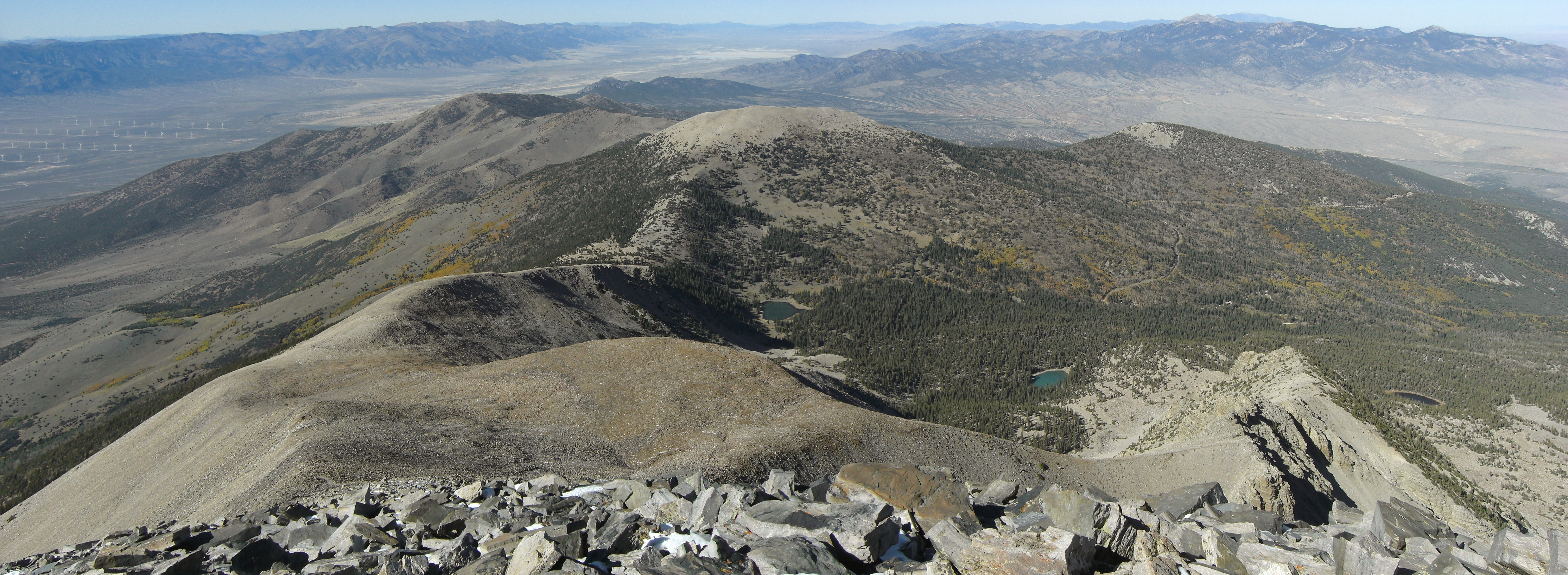 View north from Mount Wheeler peak